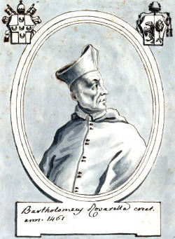 Bartolomeo Roverella